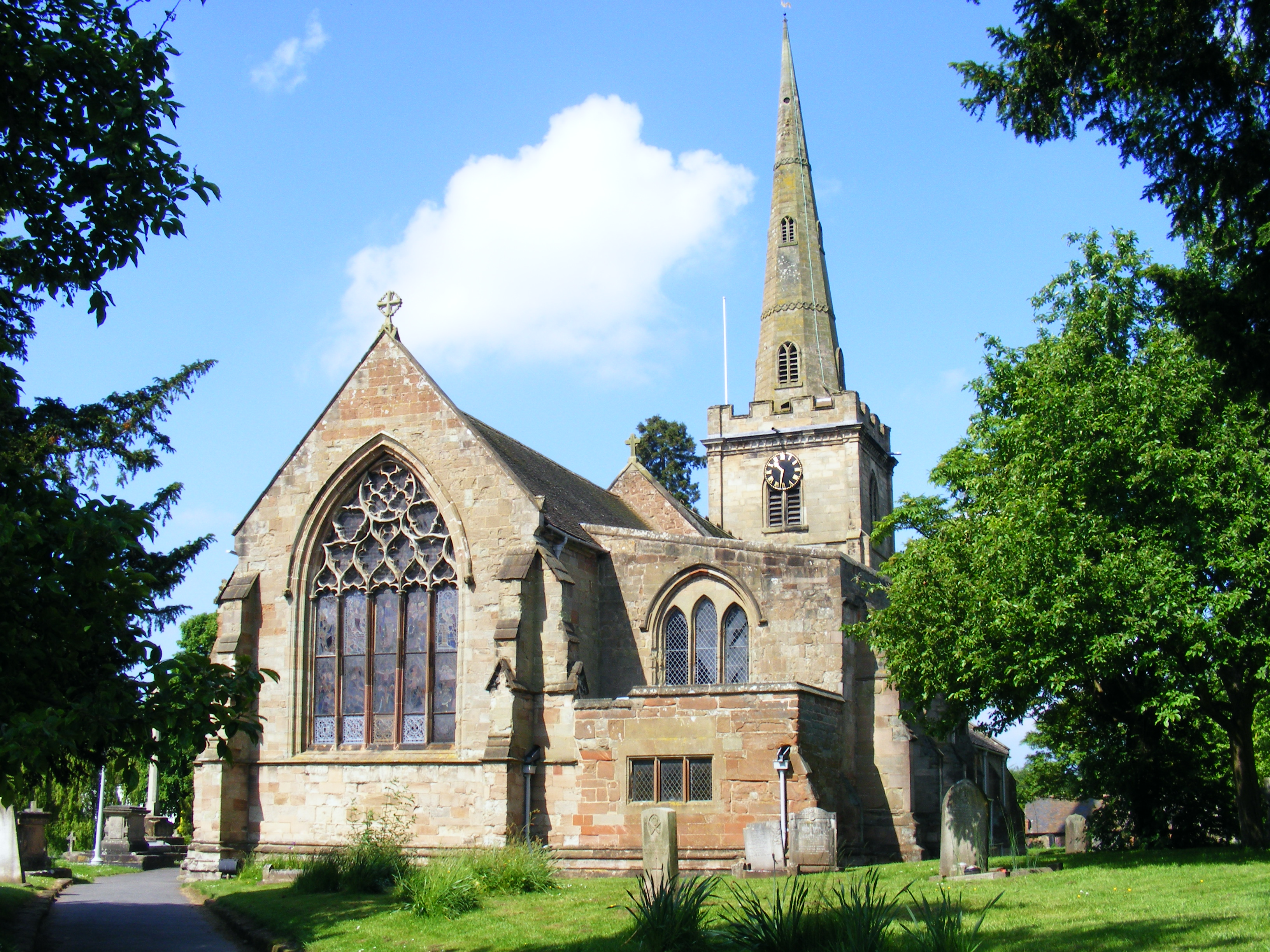 Chaddesley Corbett Parish Church from lytch gate.